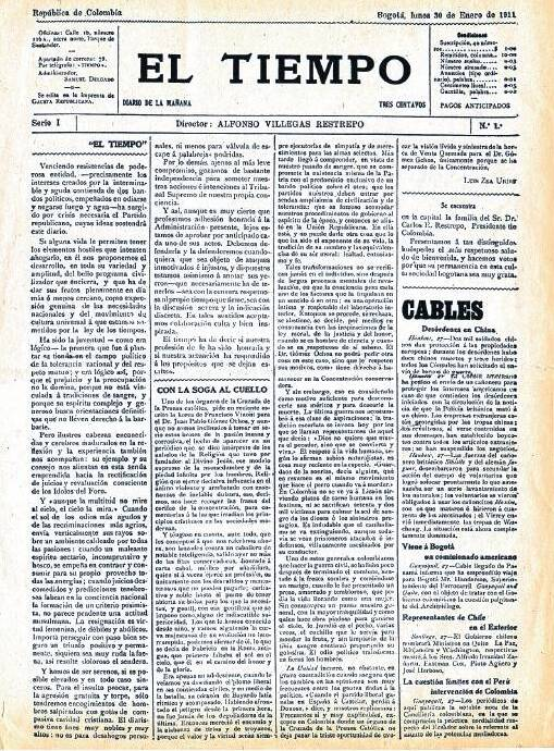 First edition of El Tiempo. January 31st, 1911.